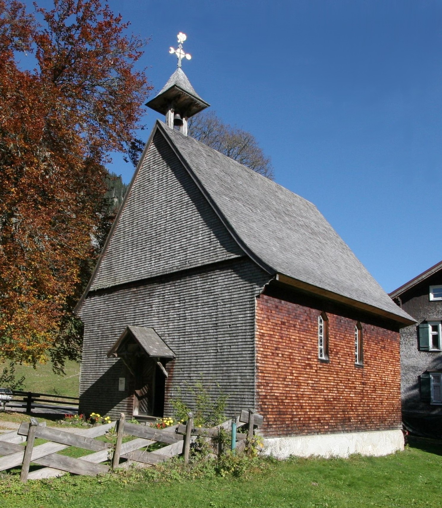 St. Anna chapel in Oberstdorf